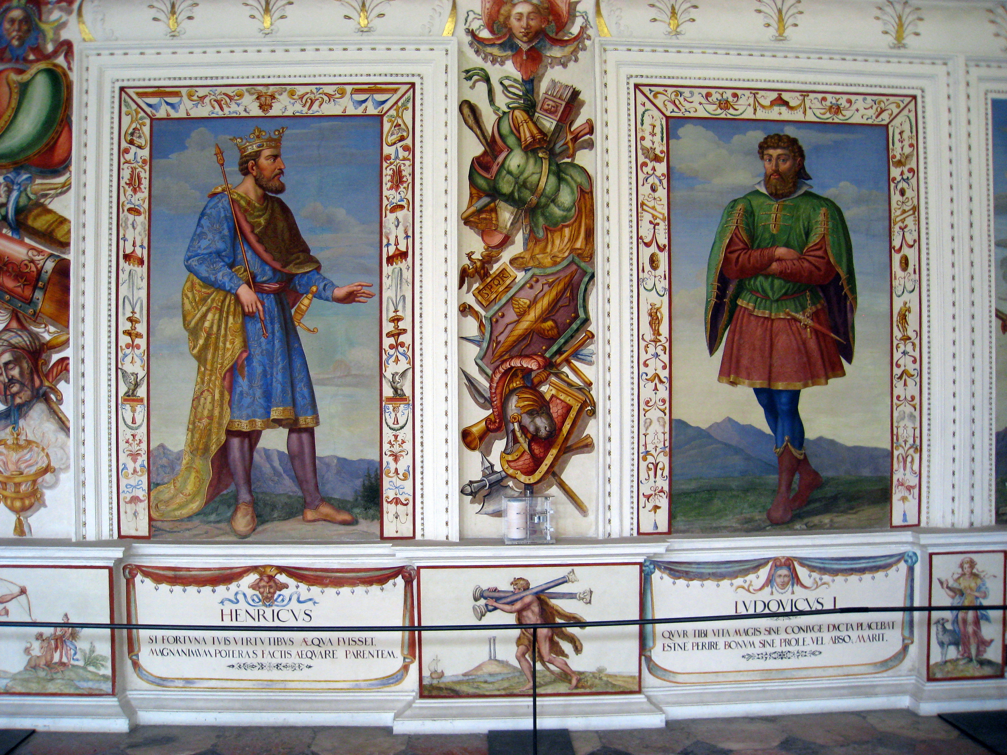 Schloss Ambras, Innsbruck, Austria - Spanish Hall.